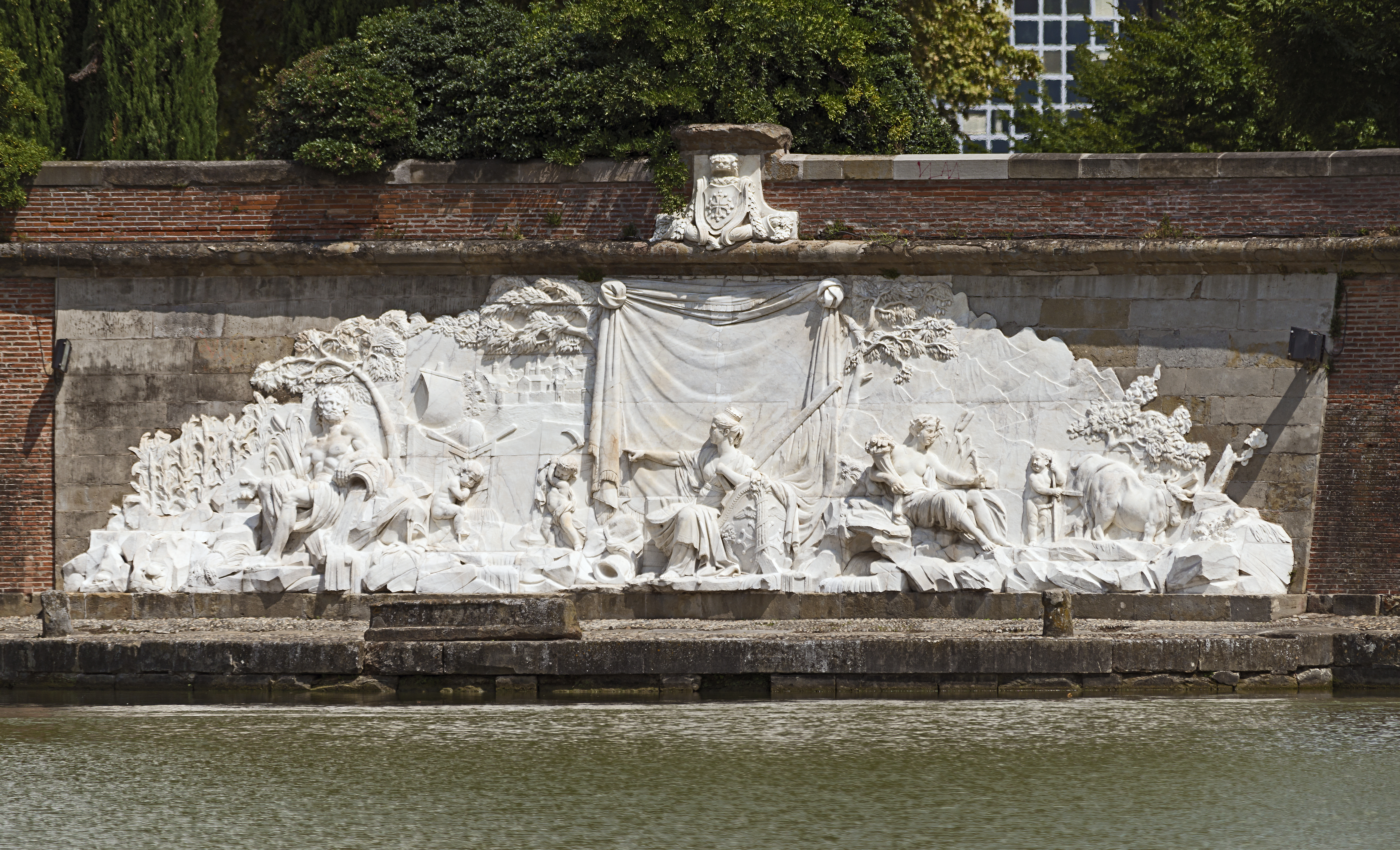 The Bas-relief of Twin Bridges Carrara marble, is located in Twin Bridges, in Toulouse (south side). It was produced between 1773 and 17751 by sculptor François Lucas.